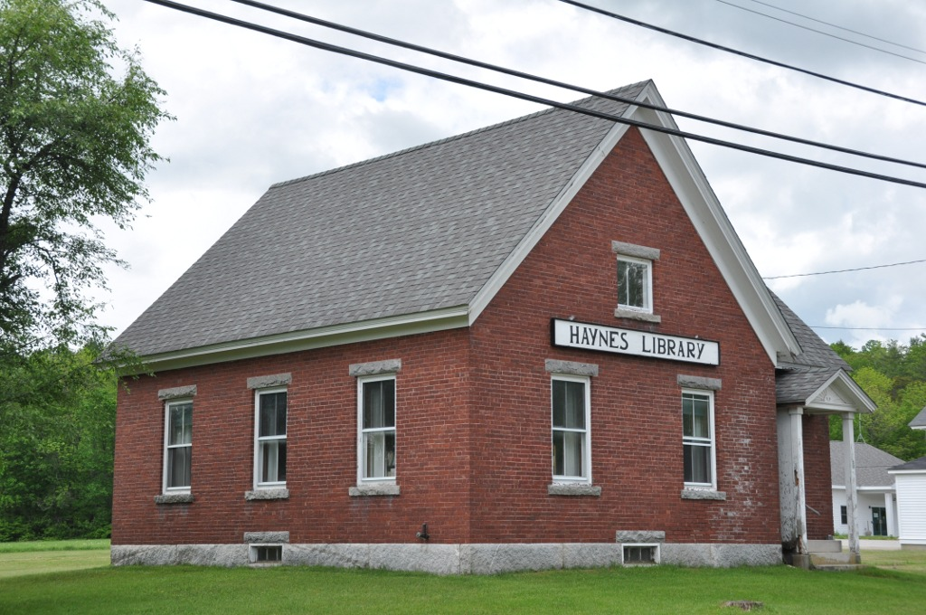 Haynes Library in the center of Alexandria, New Hampshire.